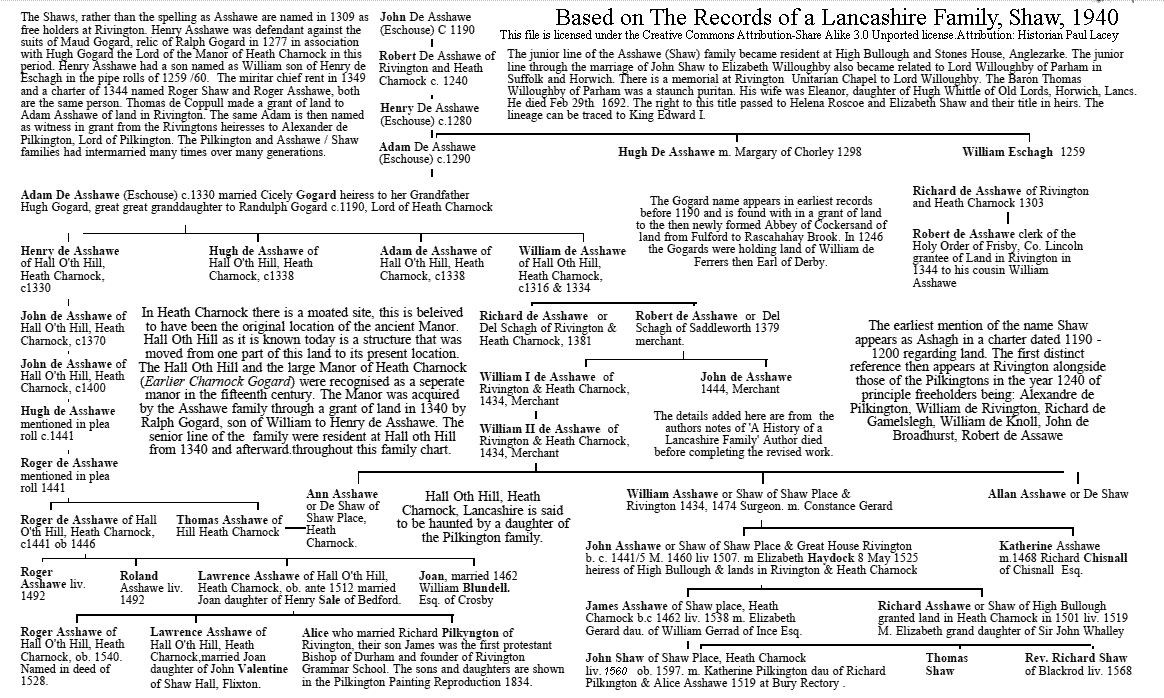 Genealogical tree of Pilkington and Shaw family specifically relating to James Pilkington Bishop of Durham.